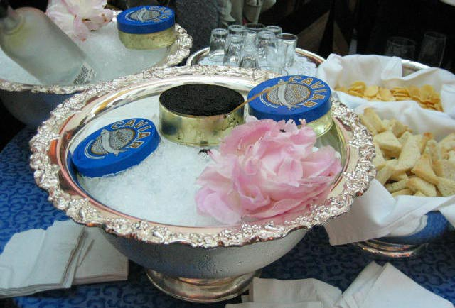 Beluga caviar